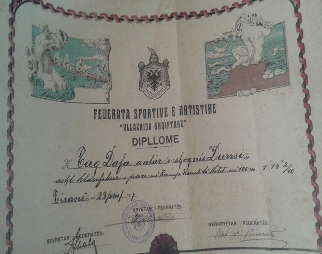 100m... stiil i lire